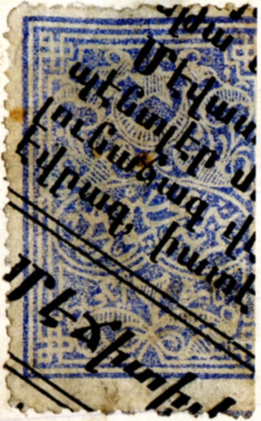 postage stamp of Ottoman Turkey